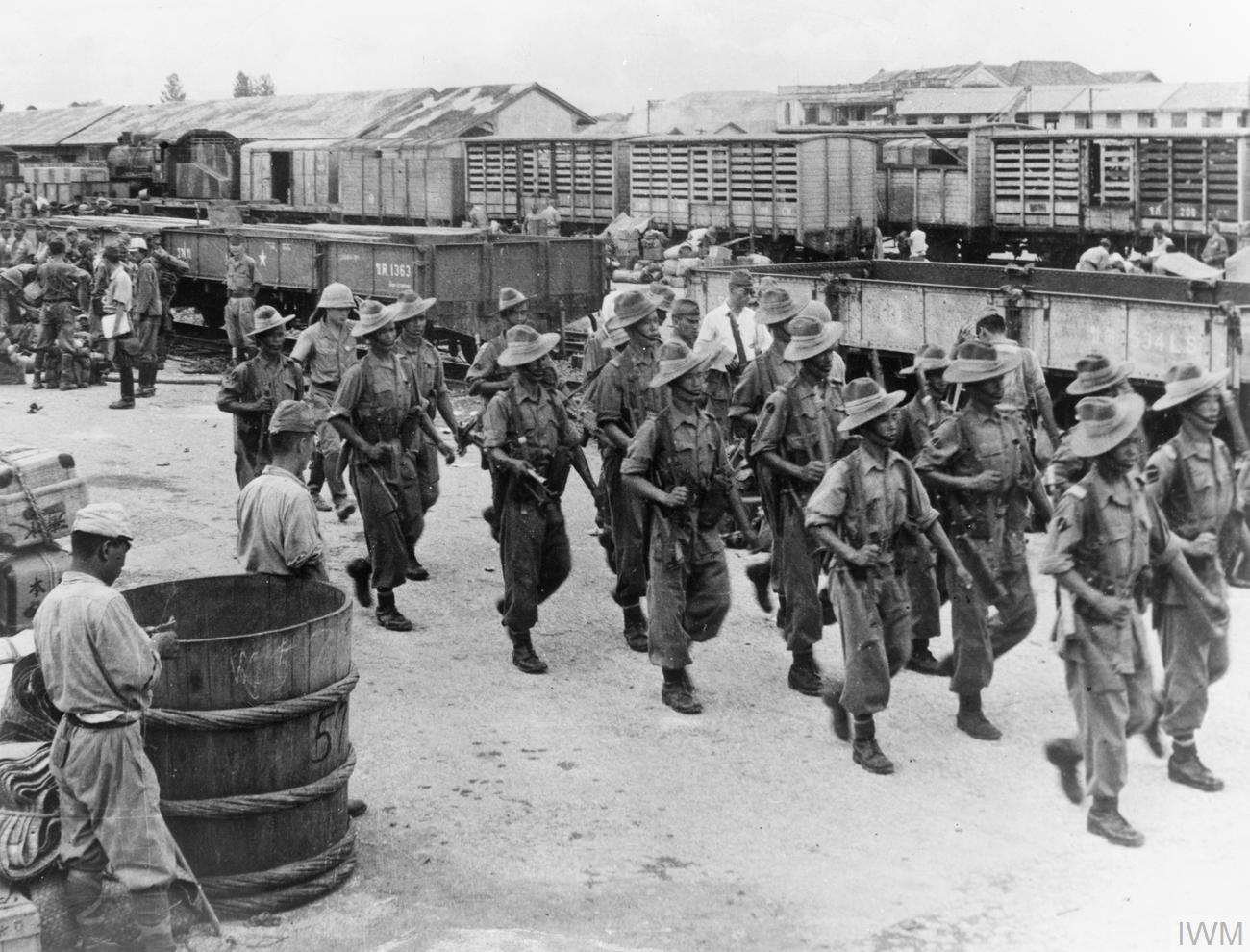 Japanese Troops Leave Bangkok, 1945 A detachment of Gurkhas march in to supervise the movement of disarmed Japanese soldiers in cattle trucks from Bangkok to prisoner of war camps outside the city.